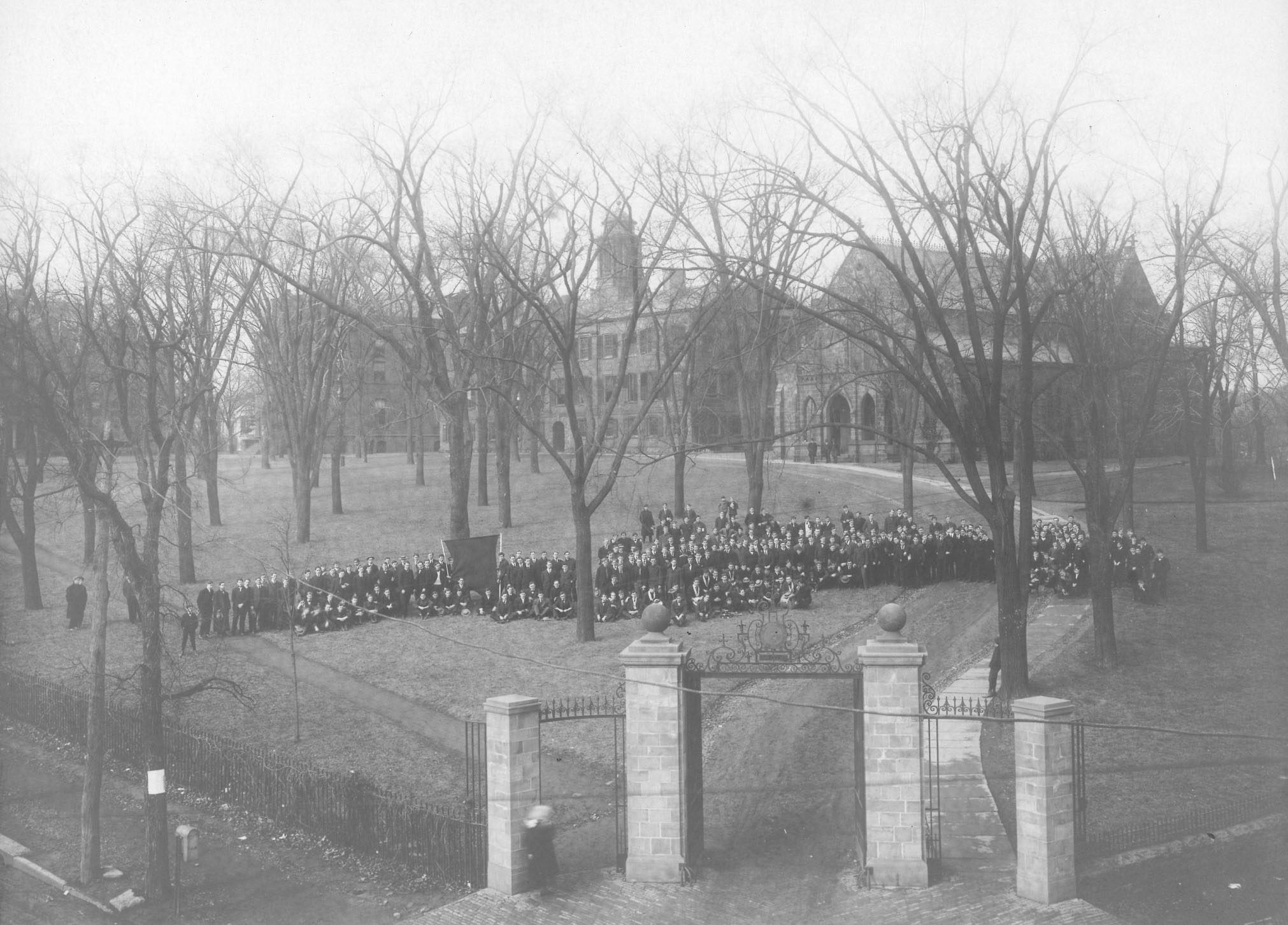 Photograph (by unknown photographer) taken 14 February 1906 of the student body assembled on the grounds of the Queen's Campus, Rutgers College, New Brunswick, New Jersey (USA). Other information Copies of the photograph were sold to members of the student body, c. 1906.